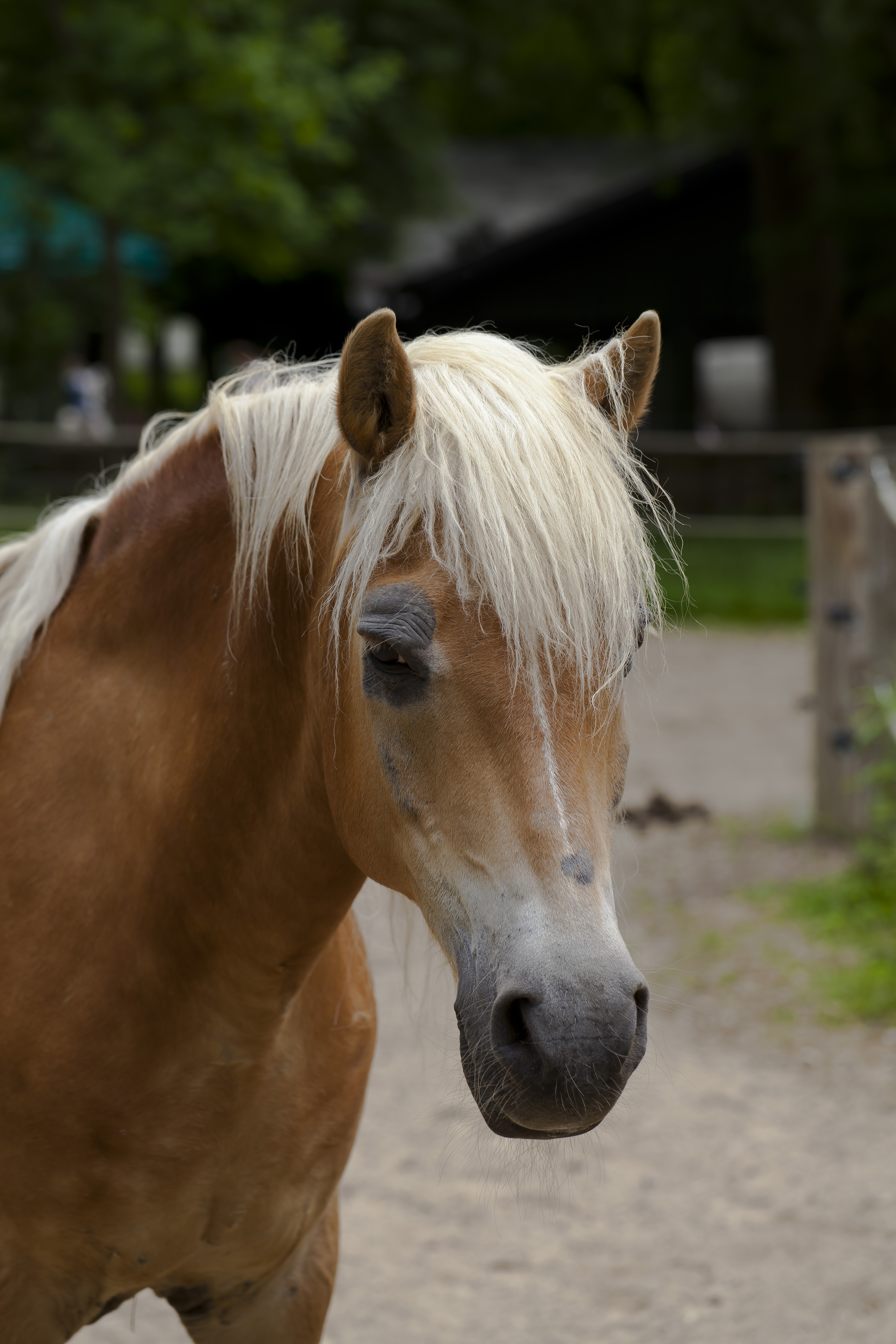 Przewalski's horse (Equus przewalskii), Tierpark Hellabrunn, Munich, Germany